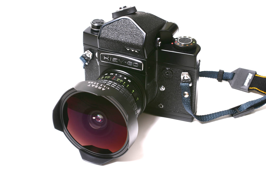 Kiev 60 modified for the 6×4.5 frame and MLU with Arsat 30mm Fisheye I took this photo and I own the copyright. Richard Carpenter Photography